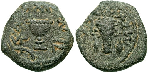 Photographed from an example in my collection